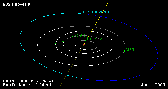 932 Hooveria orbit, and his position on 01 Jan 2009 (NASA Orbit Viewer applet)